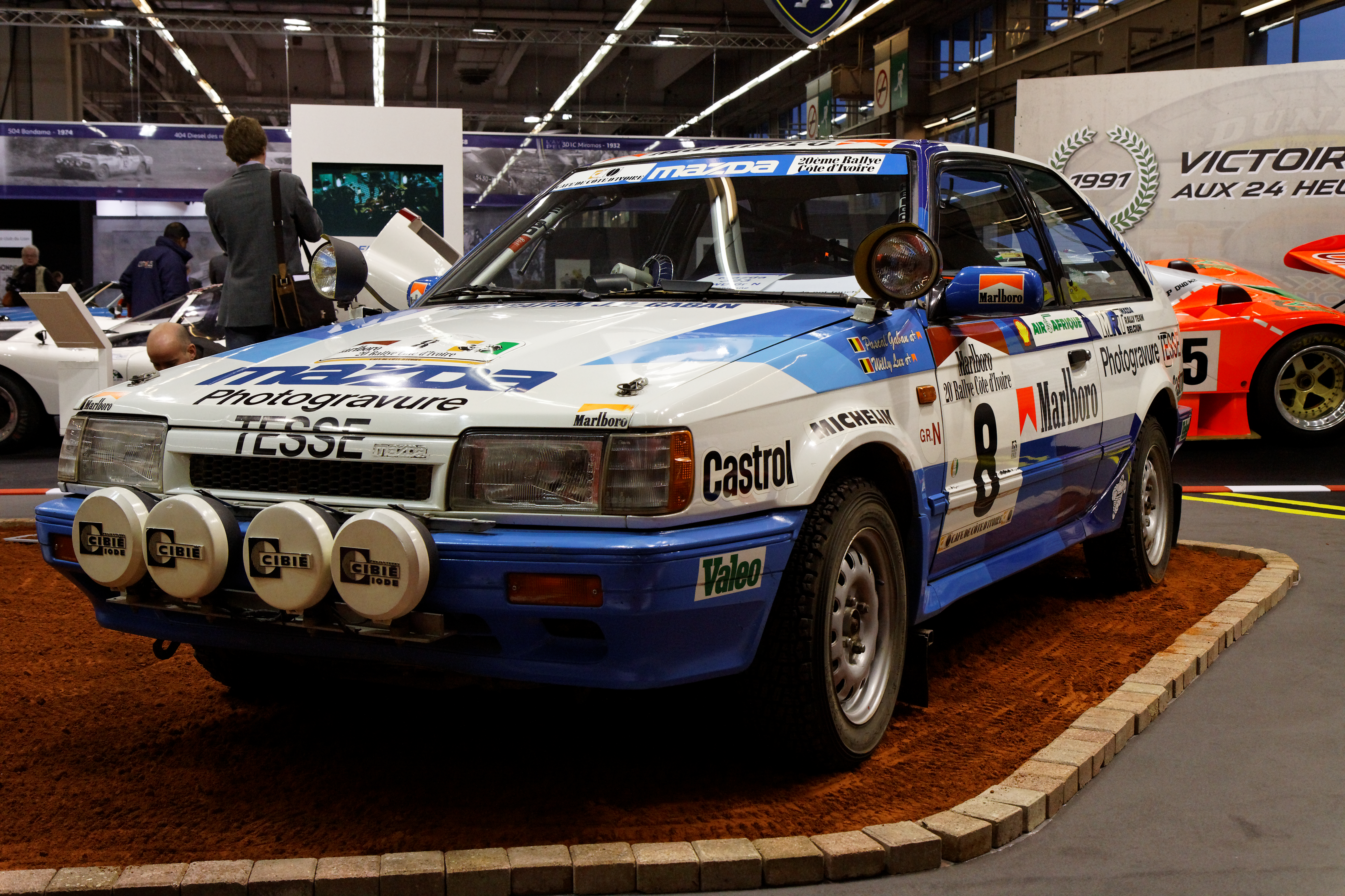 Group N Mazda 323 GTX 4WD rally car (BF)